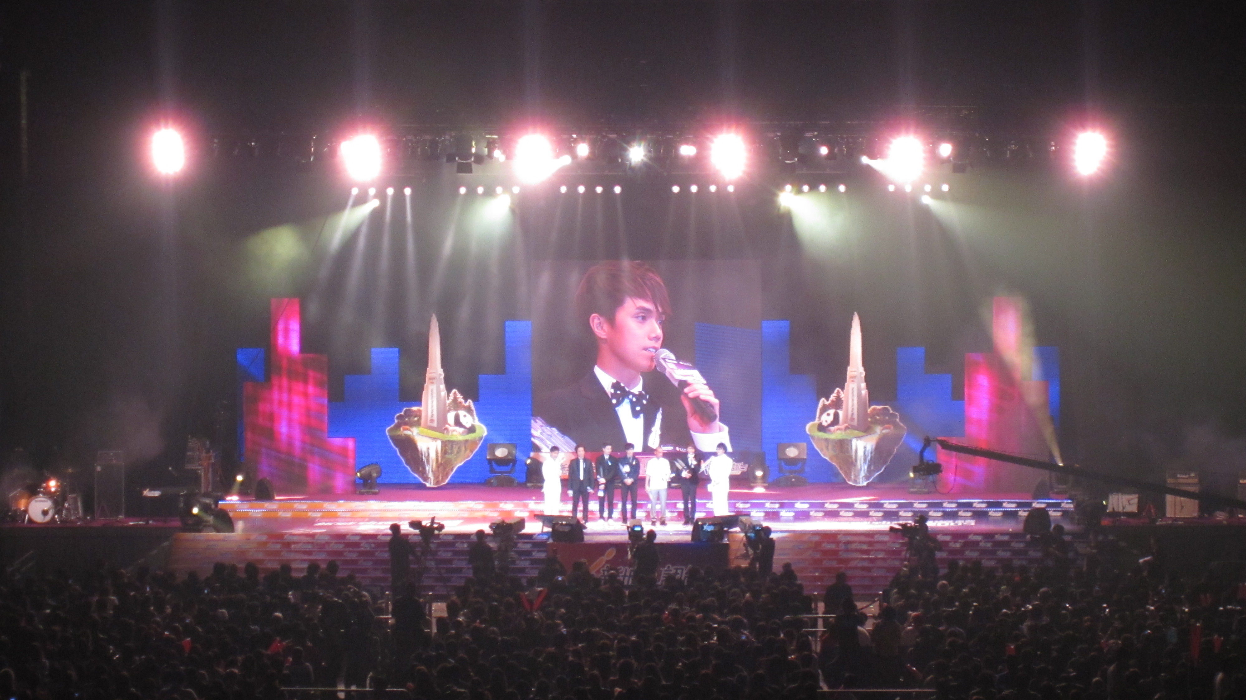 Metro Hit Awards 2009 in HKCEC